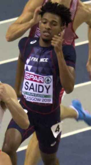 semi 1 of 400m event, Glasgow 2019